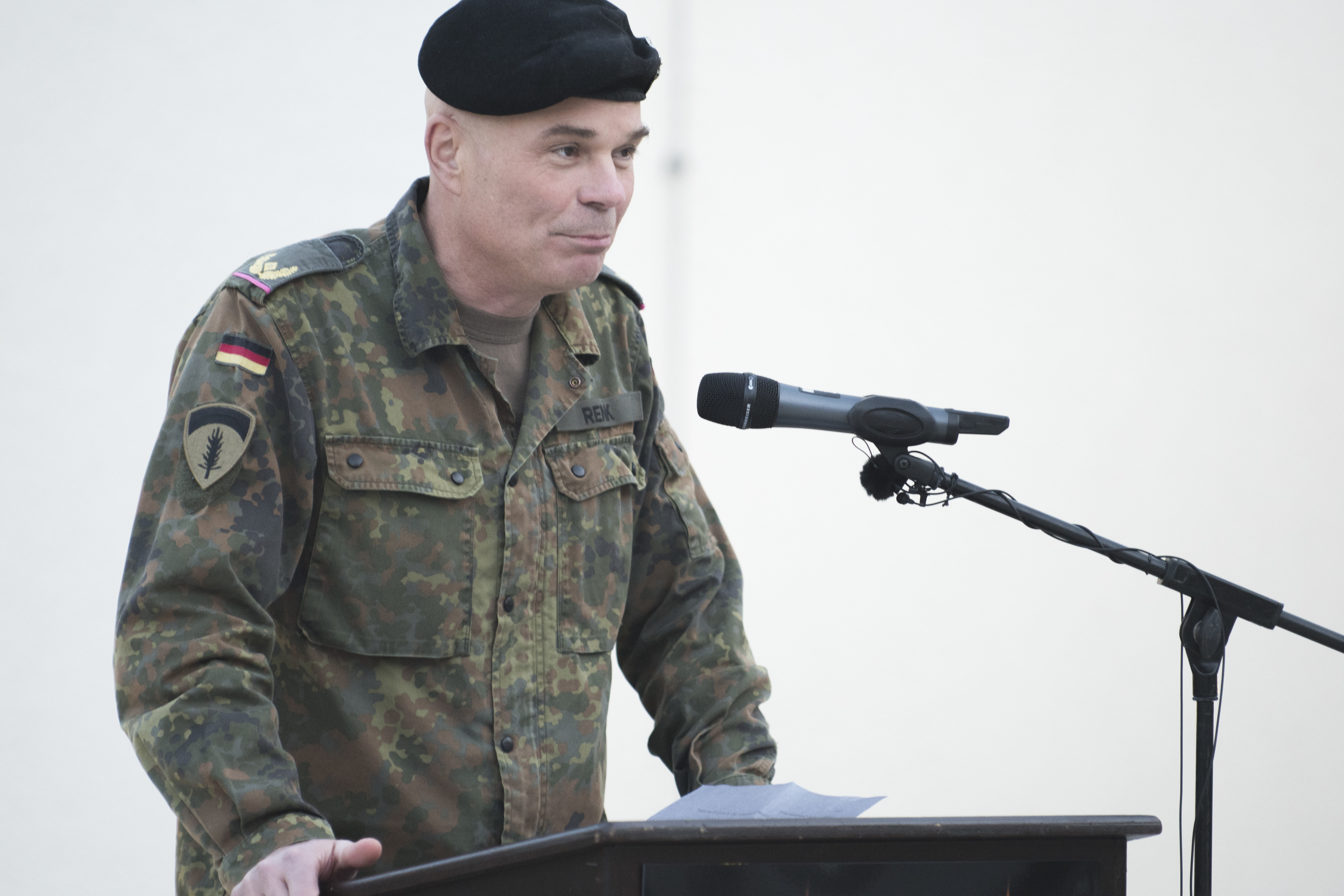 U.S. Army Europe's new Chief of Staff German Brig. Gen. Hartmut Renk gives a few remarks after he receives the historic U.S. Army Europe Patch during a patch ceremony. "It's a great fortune for me and I really feel very happy to be the chief of staff of this traditional and famous formation," Renk said. "I feel very honored to get this chance."